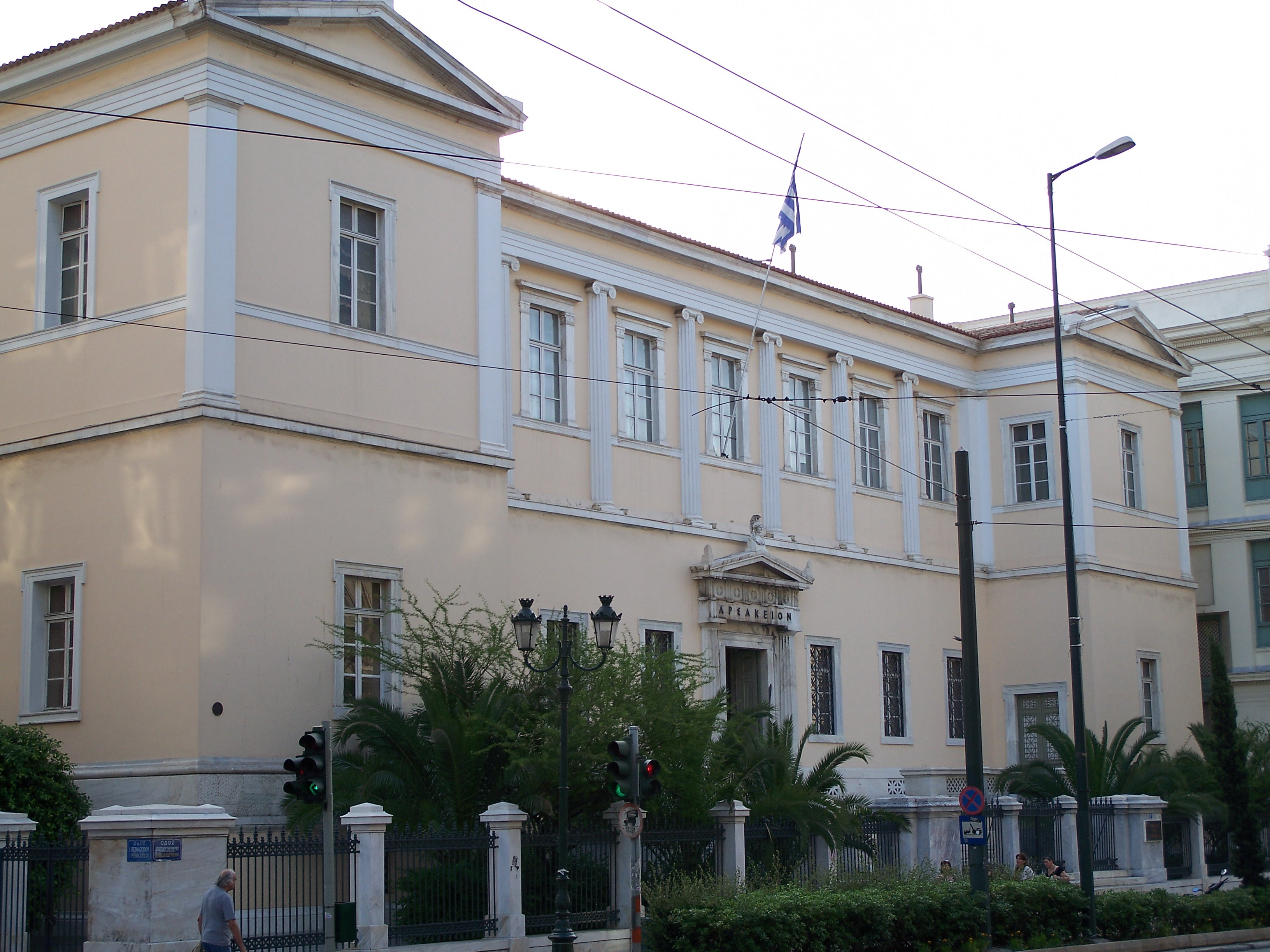 The former Building of Arsakeio (Αρσάκειο) school, now home of the Council of State (Συμβούλιο της Επικρατείας), Athens, Greece.